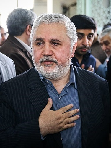 Ali Darabi